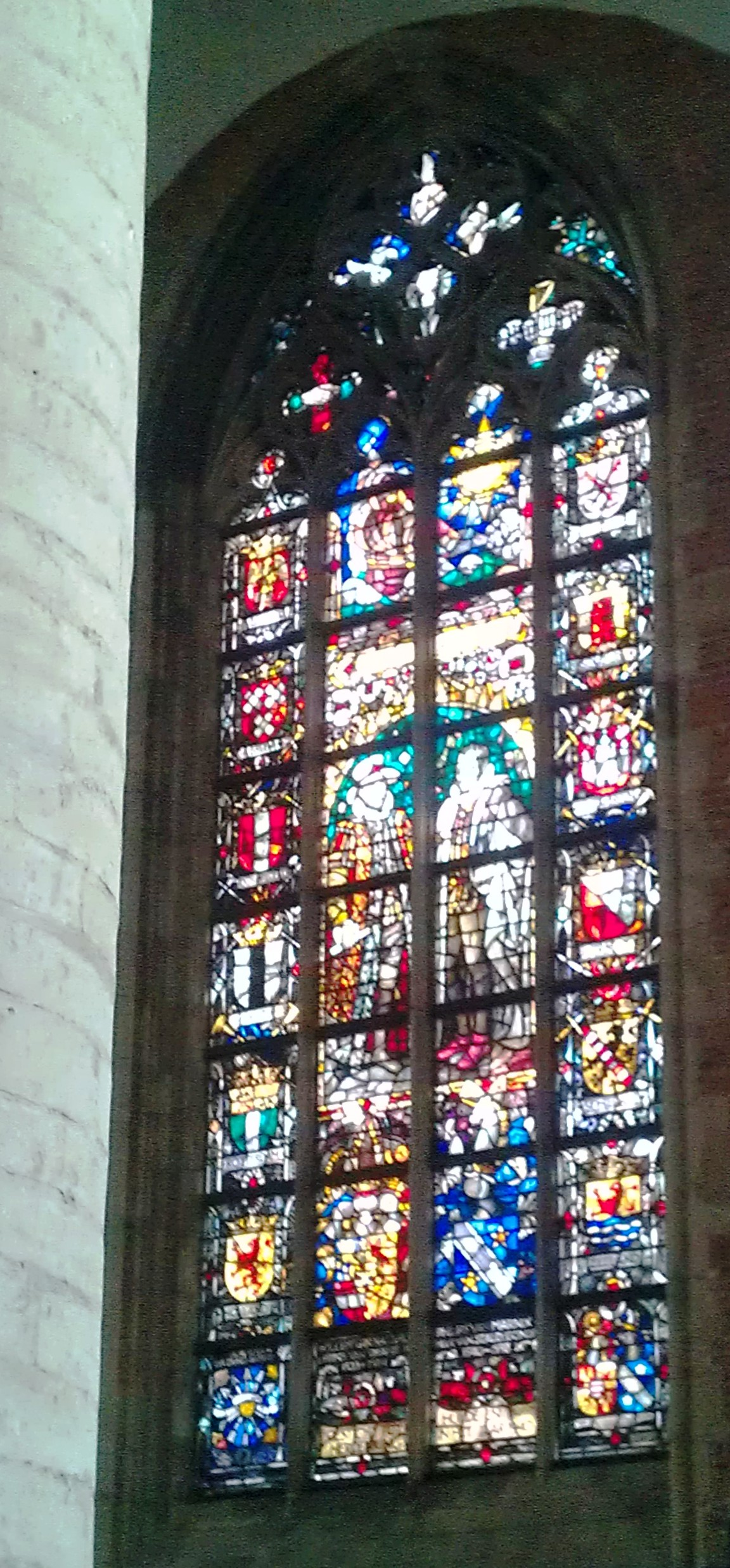 Stainglass window (1940) At Pieterskerk Leiden dedicated to Philips van marnix van St Aldegonde (1540 - 1599) and William of Orange (1533 - 1584).